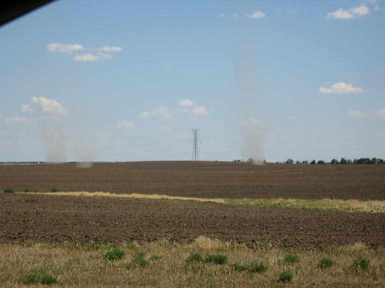 Thermals in South Dakota